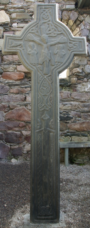 Kilmory Knap Chapel, Argyll and Bute, Scotland - MacMillan's Cross